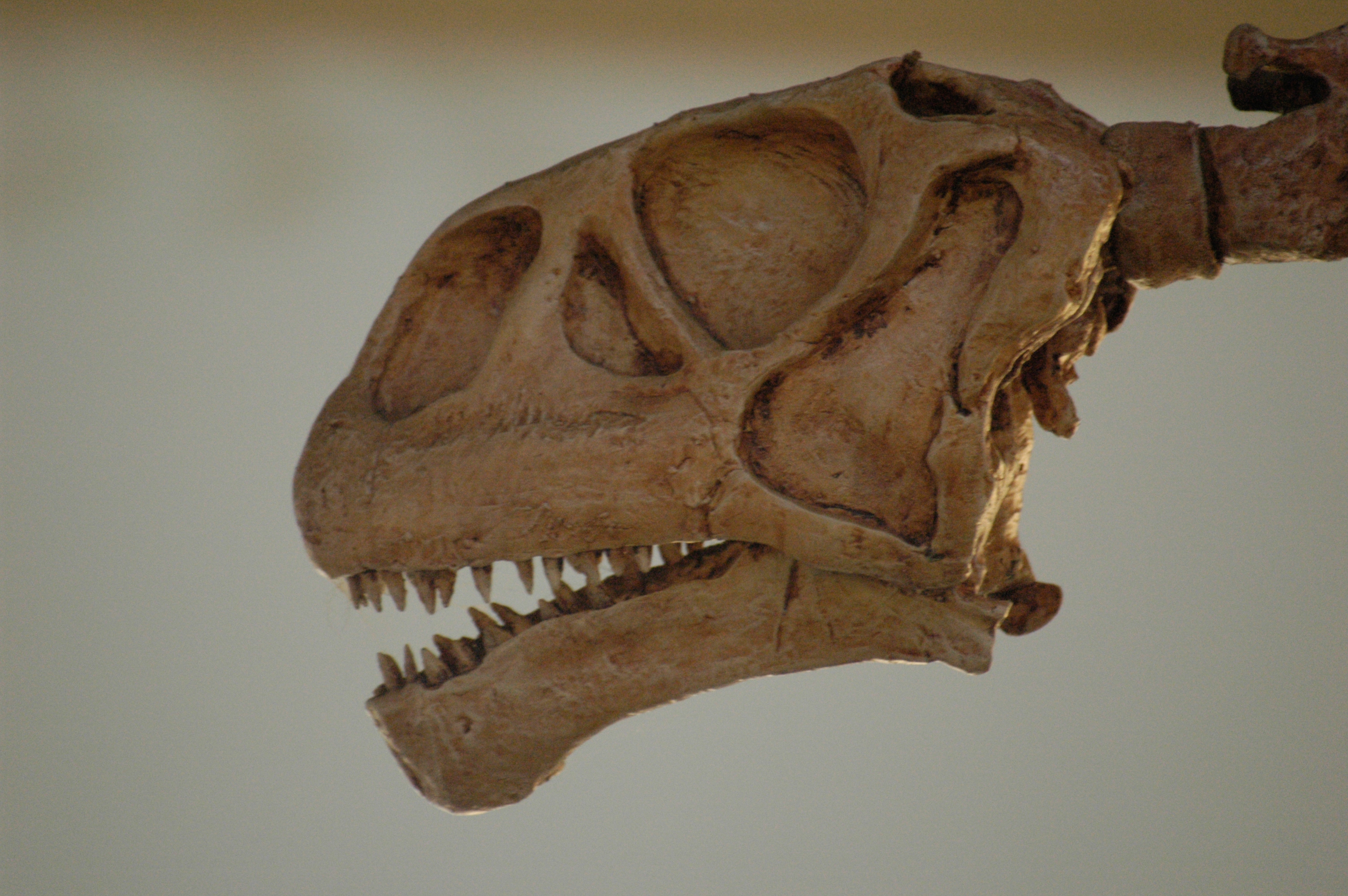 Malawisaurus (Malawisaurus dixeyi) at the museum in Karonga, Malawi.